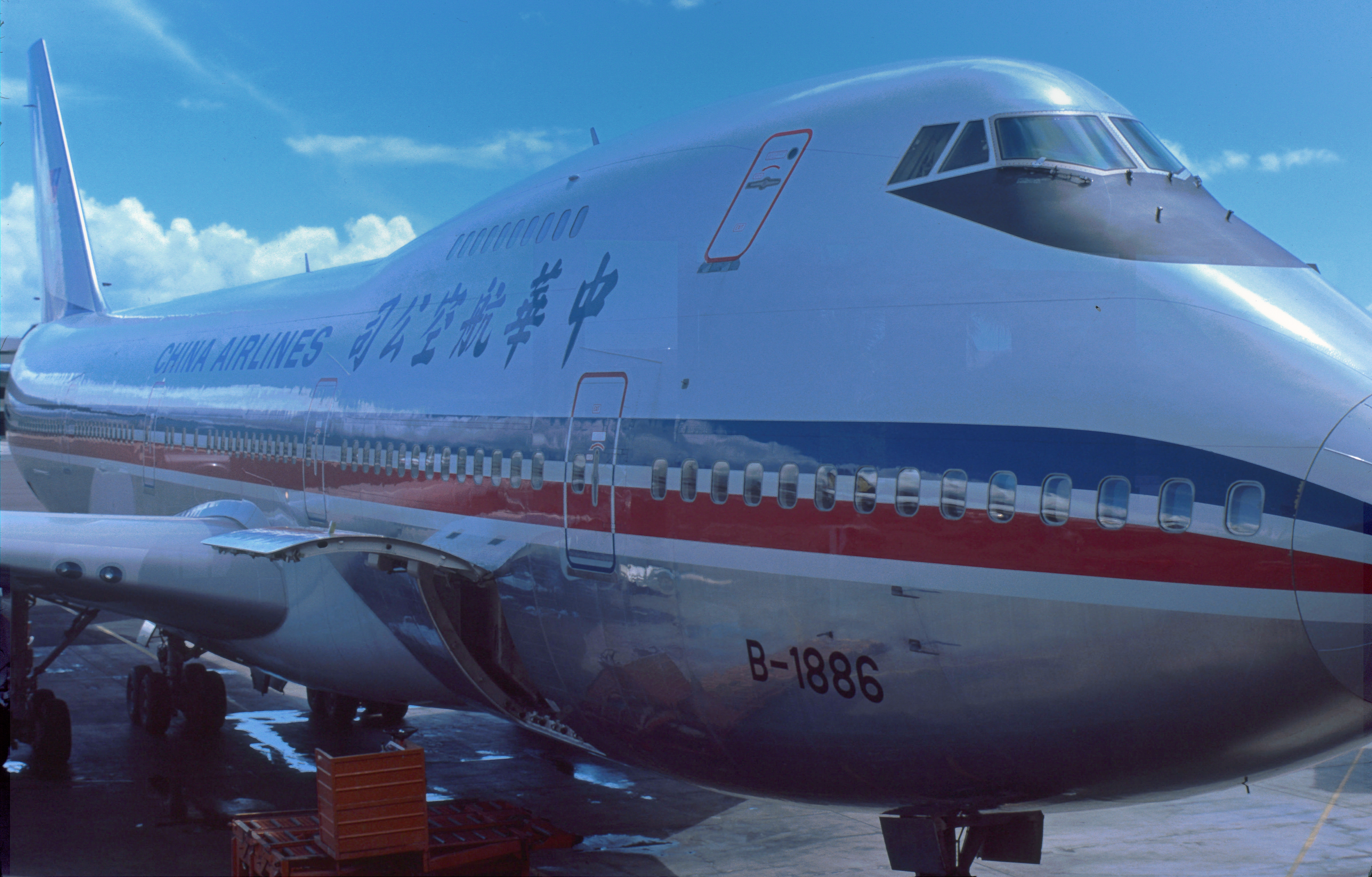 China Airlines B-1886 at the gate at Honolulu International Airport. B-1886 crashed 2008-07-07 as N714CK in Bogota, killing 2 people on the ground . I recently found this picture when I scanned my old slides. The day can be +/- 2, year and month are correct.